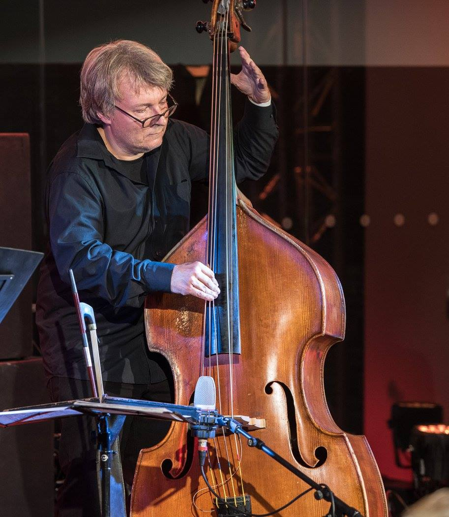 Stefan Werni - Kontrabass / Double Bass